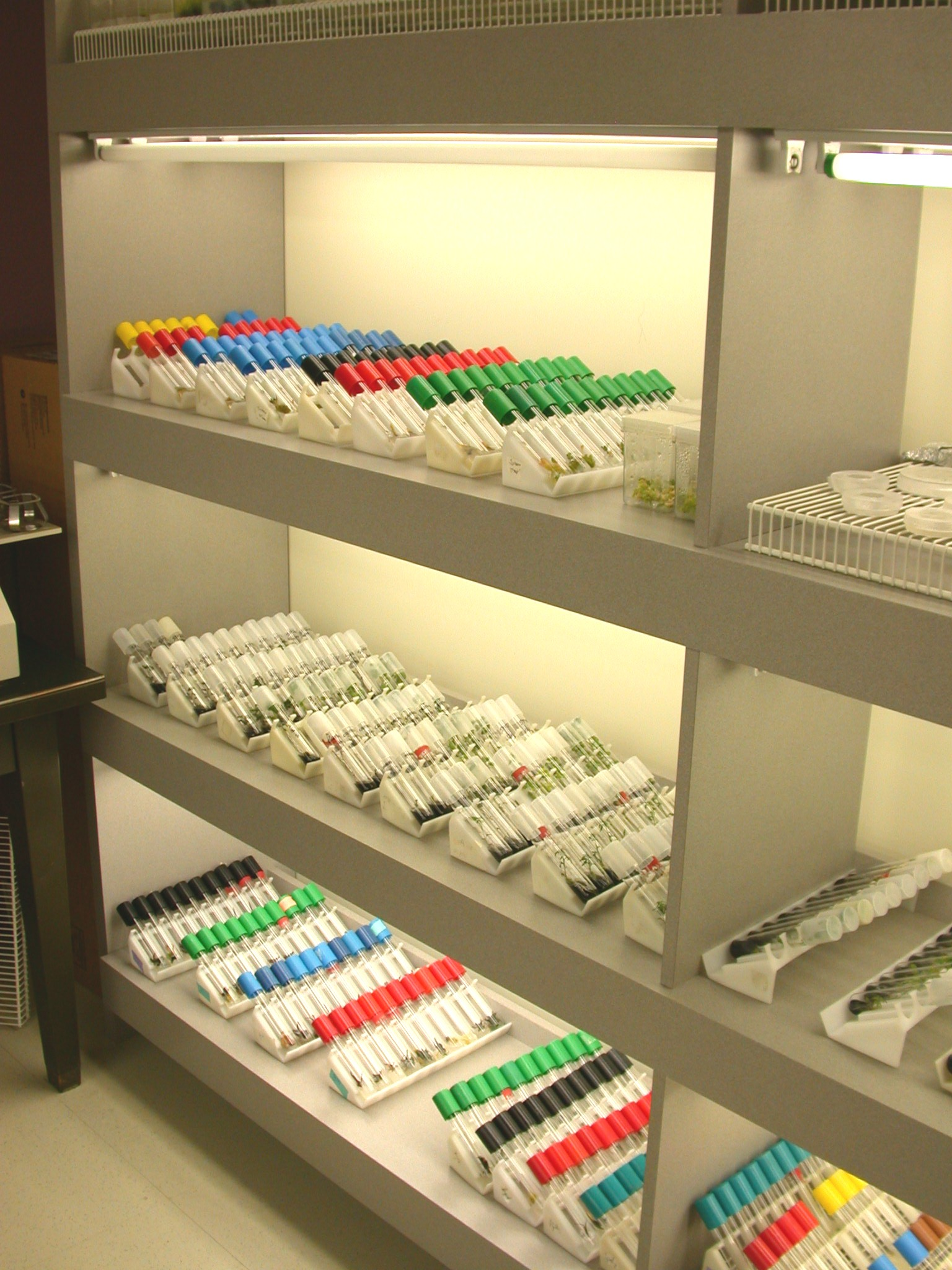 seb951 took this image. Image of plants growth in vitro.